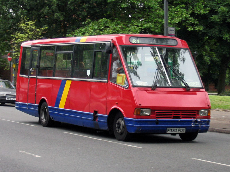 An MCW Metrorider new in February 1989 to Yorkshire Traction as their 330